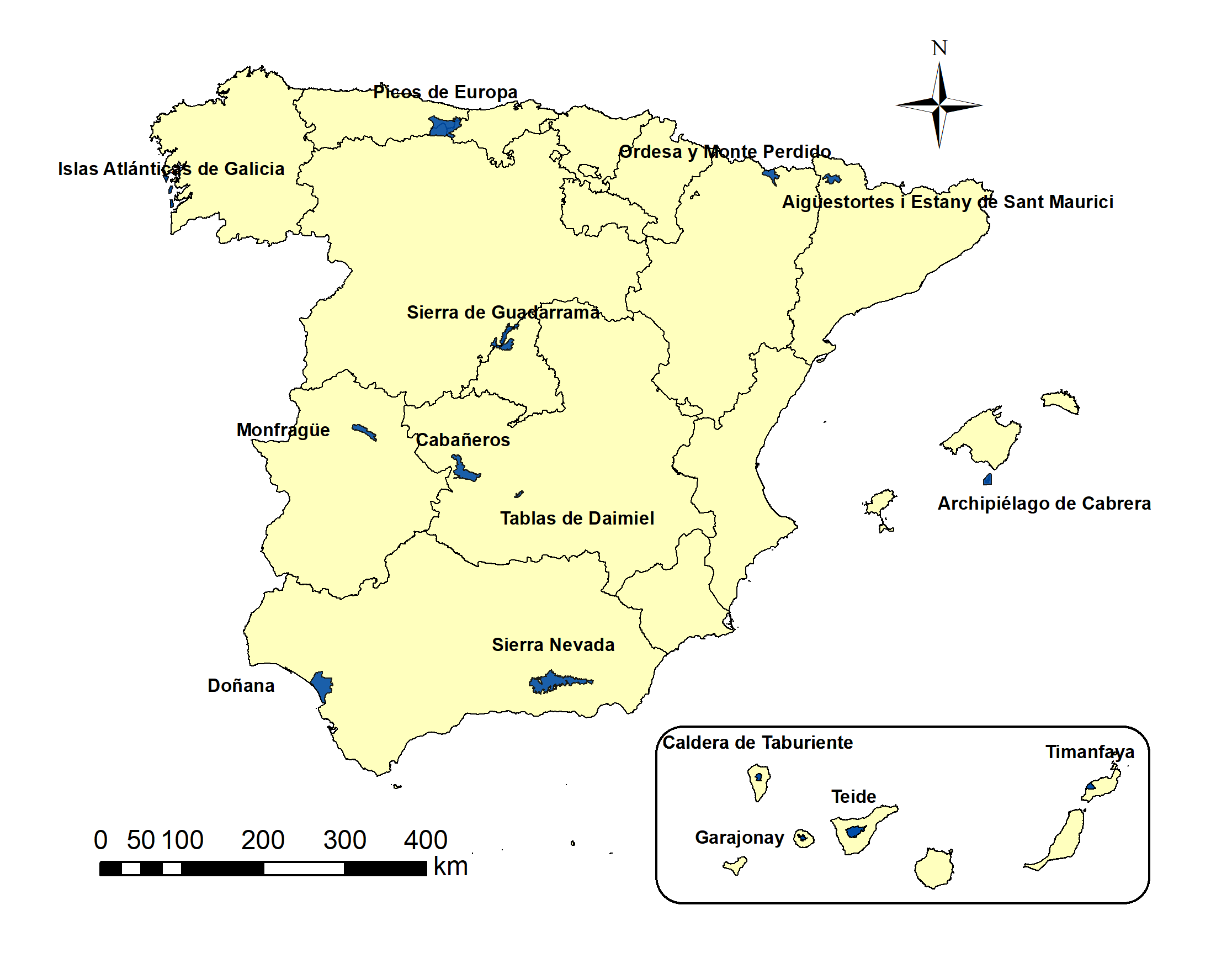 National Parks in Spain as of 2017.